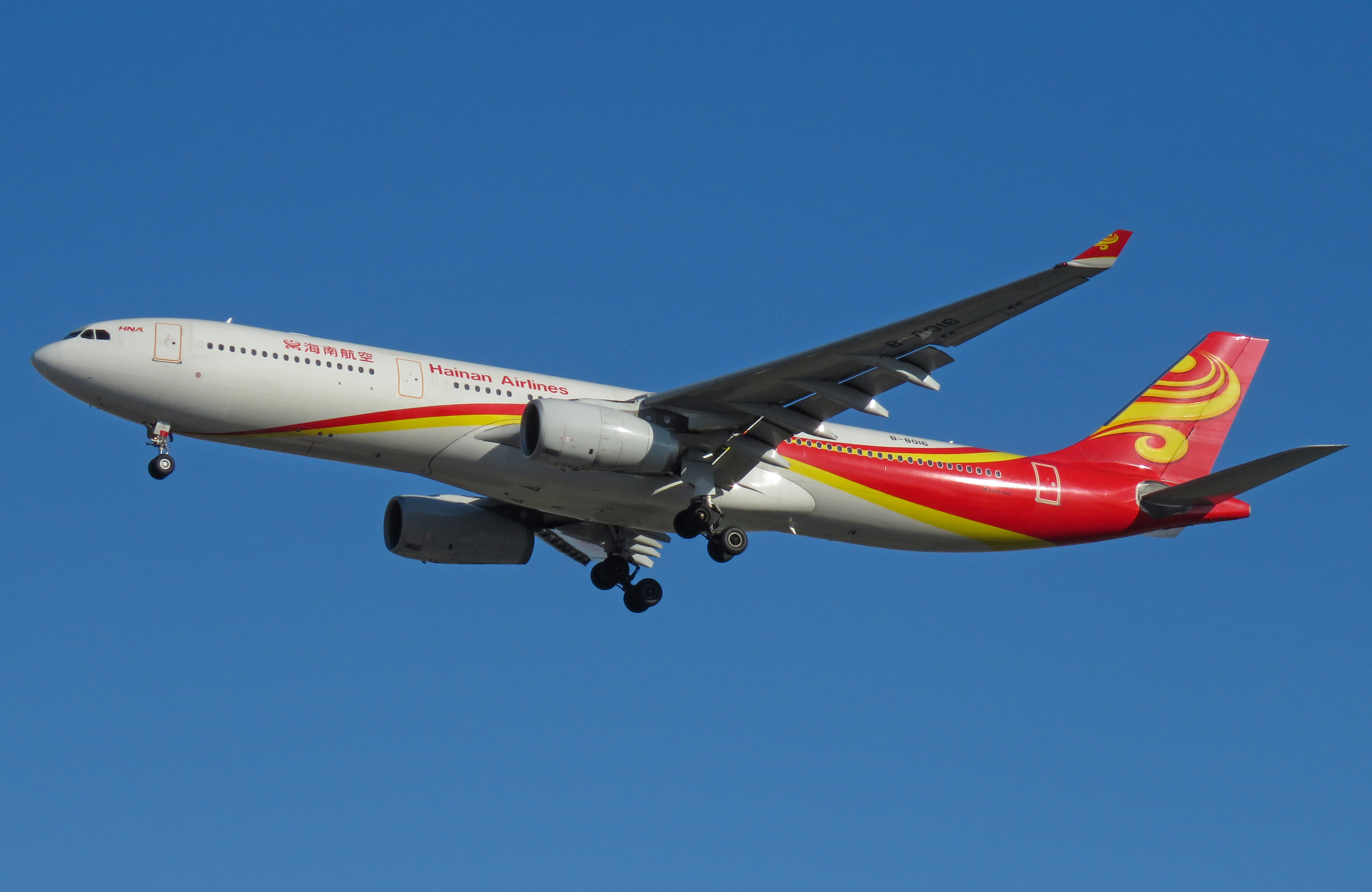 Hainan 7606 from Shanghai Hongqiao.